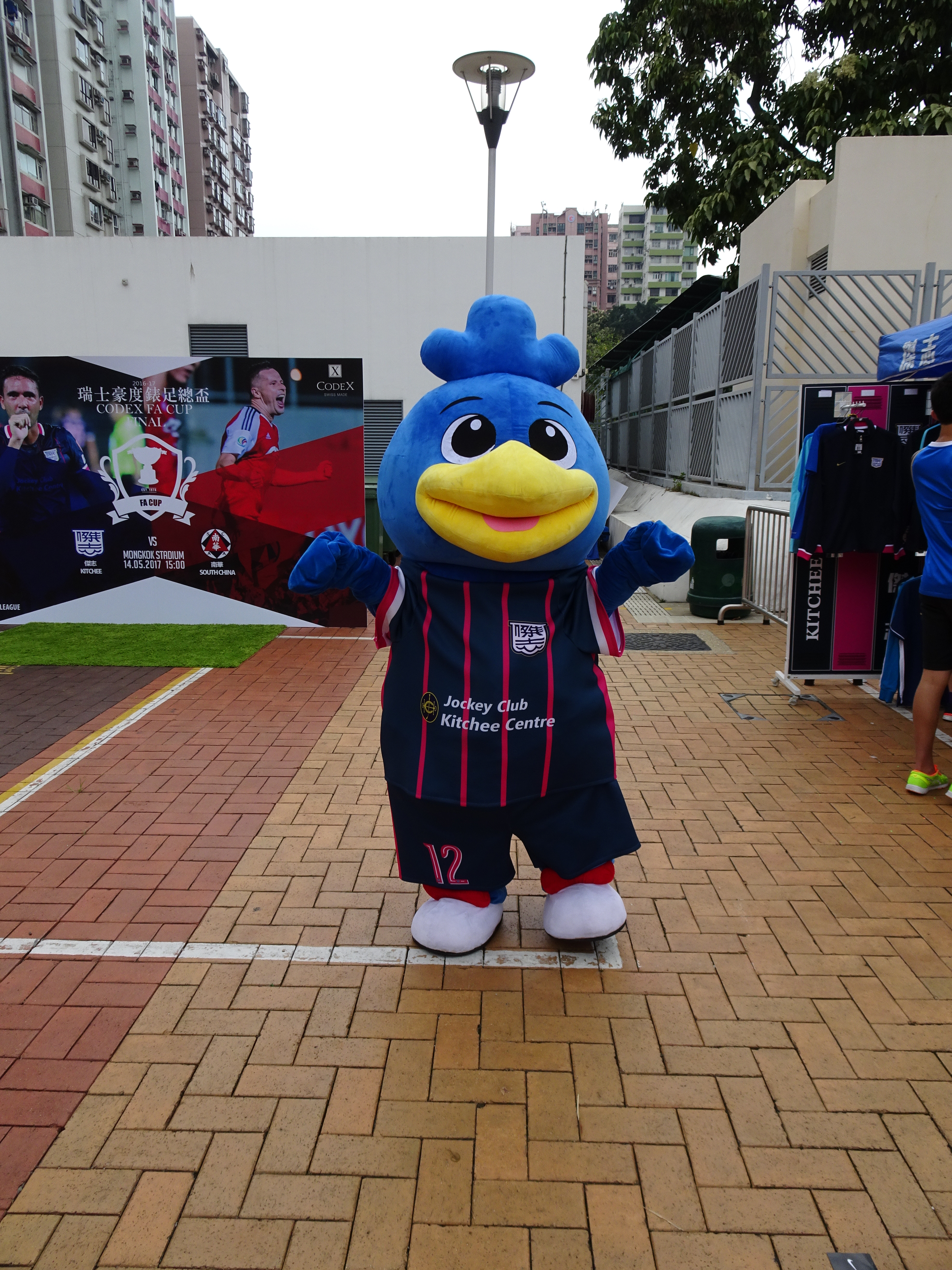 Kit Jai (14 May 2017, Hong Kong FA Cup final, Kitchee vs South China, Mong Kok Stadium) 中文（香港）: 傑仔 (14 May 2017, 足總盃決賽, 傑志 vs 南華, 旺角大球場)